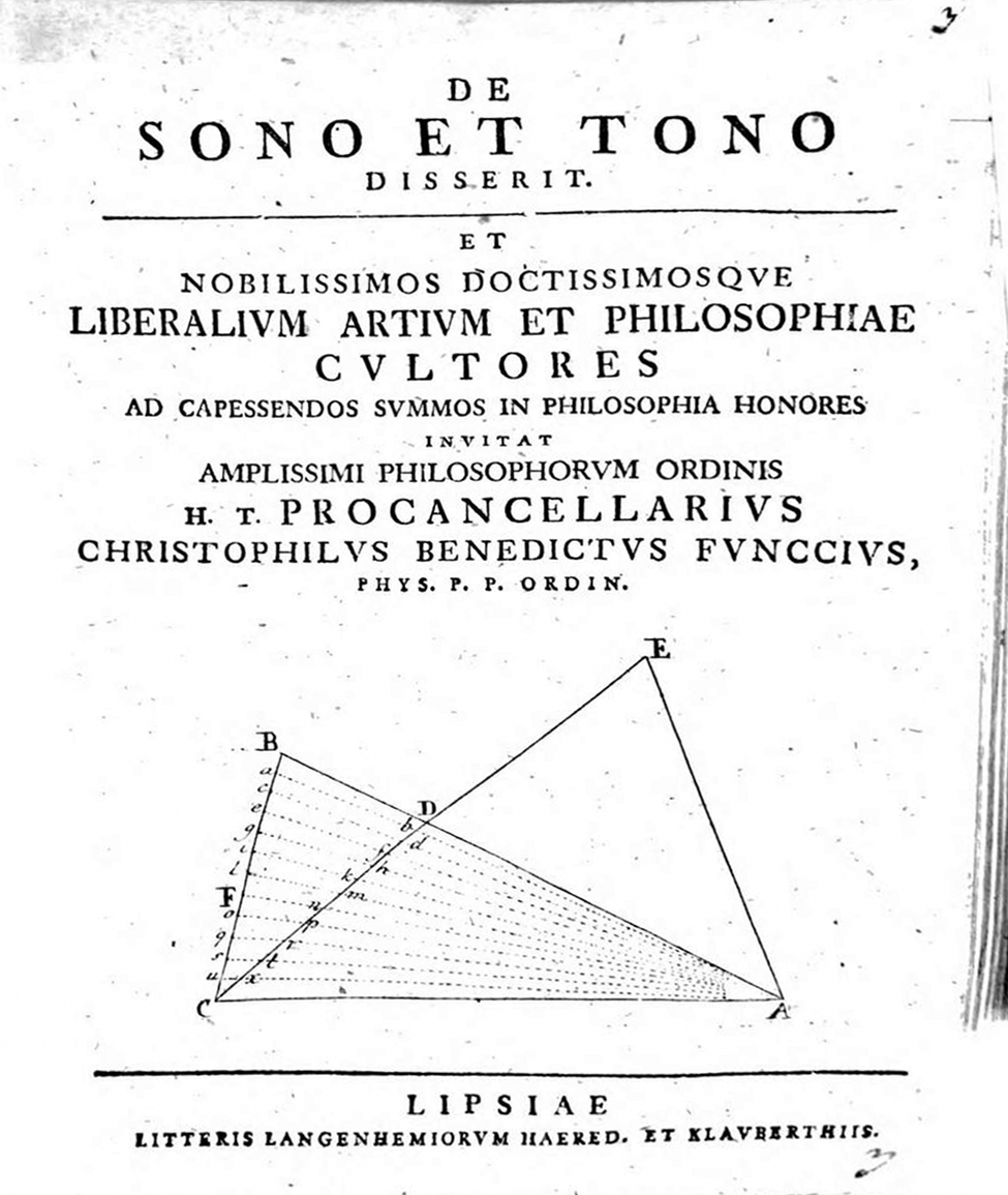 Title page from Christlieb Benedict Funk's De Sono et Tono Disserit. showing a geometrical construction. Applied corrective perspective and lens distortion filters to original scan in Gimp.